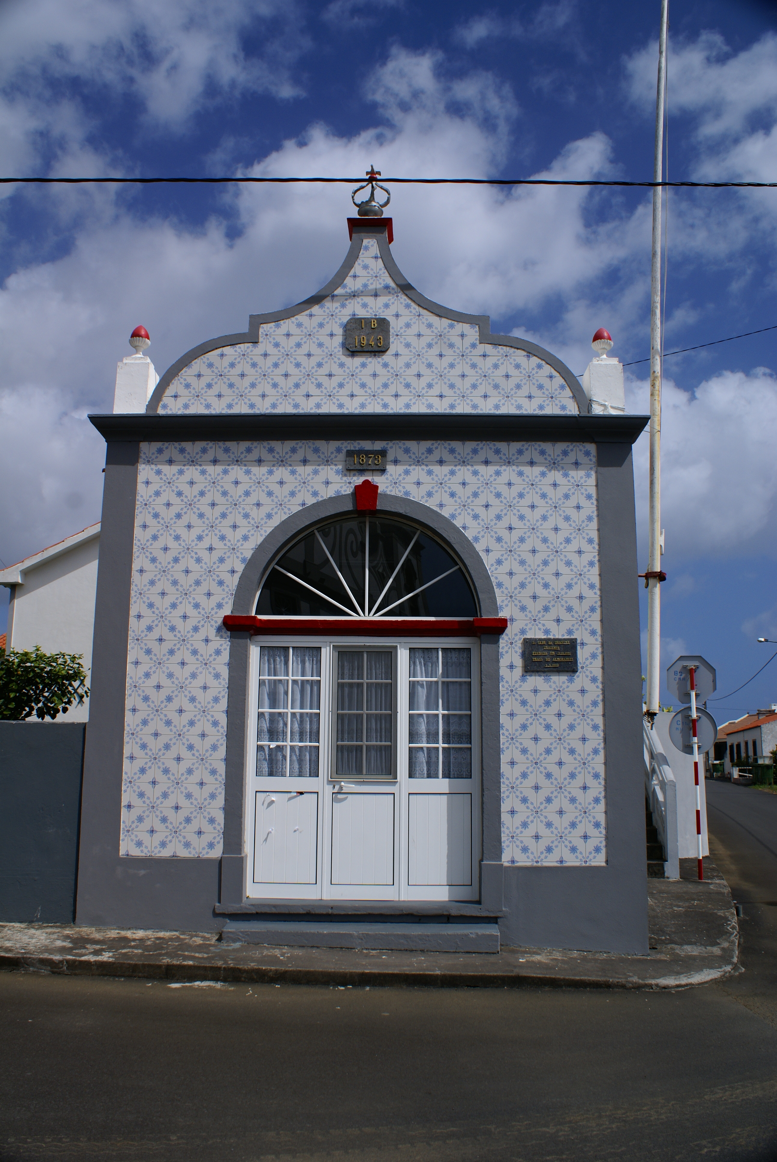 The Império do Espírito Santo da Trindade, Praia do Almoxarife, Horta, Faial (Azores), Portugal